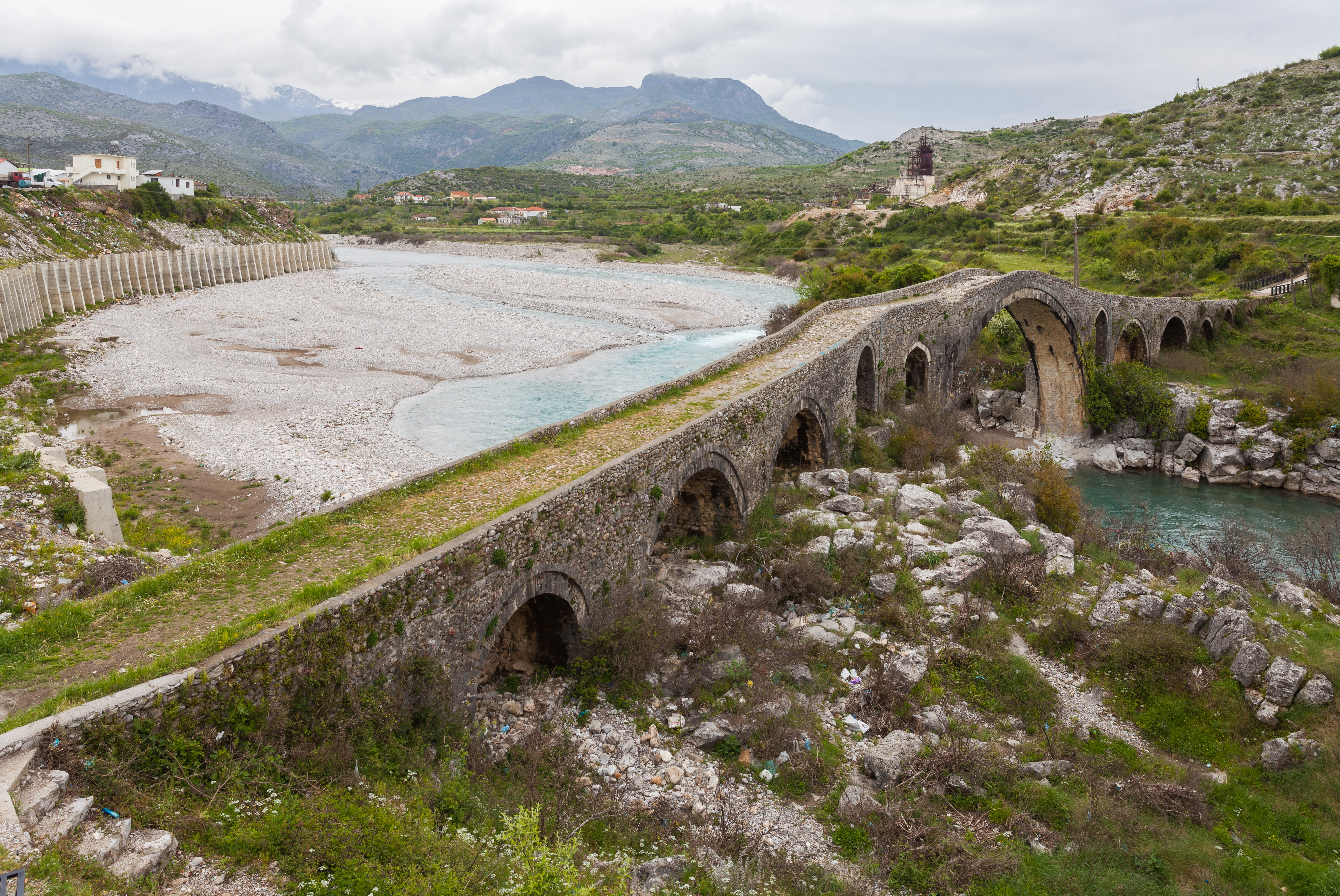 Mes Bridge, Mes, Albania